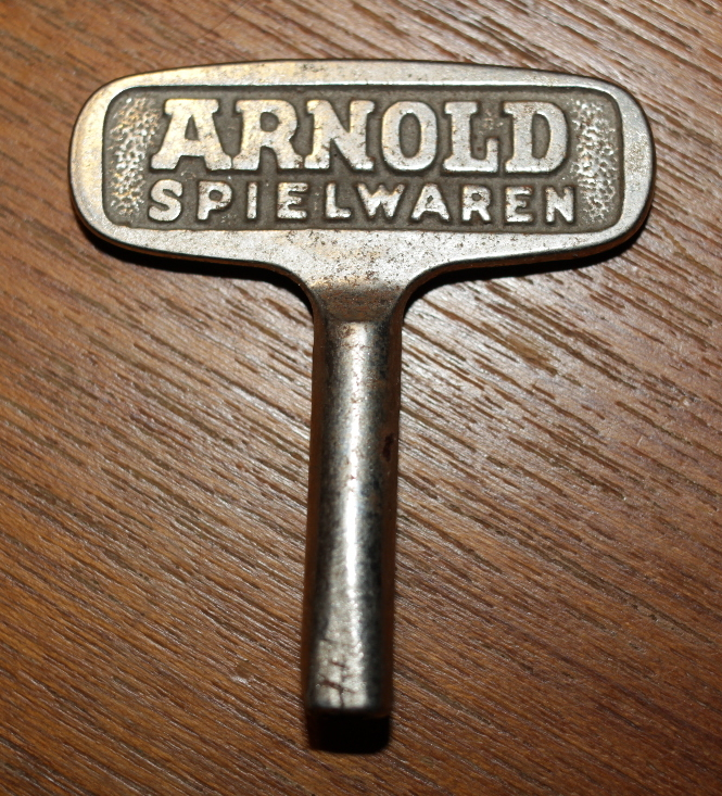 Key for mechanical toy, Arnold Spielwaren (Arnold Toys).